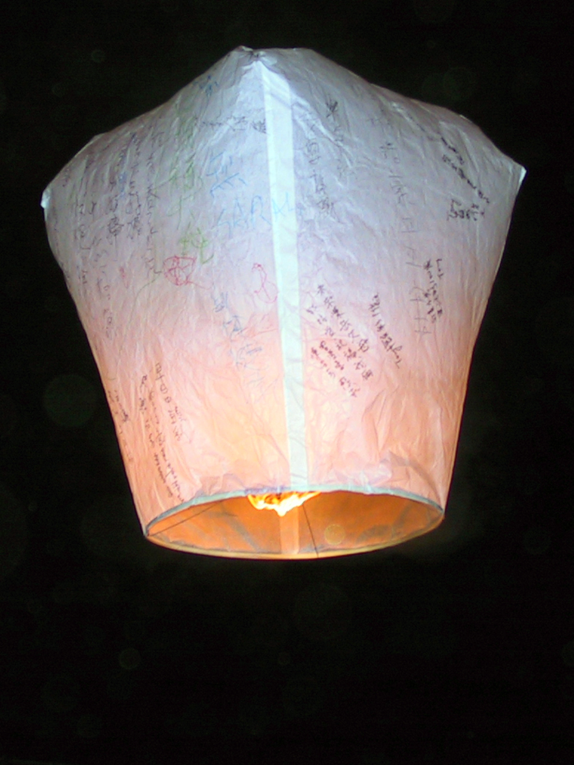 Chinese sky lantern at Hualien County in Taiwan